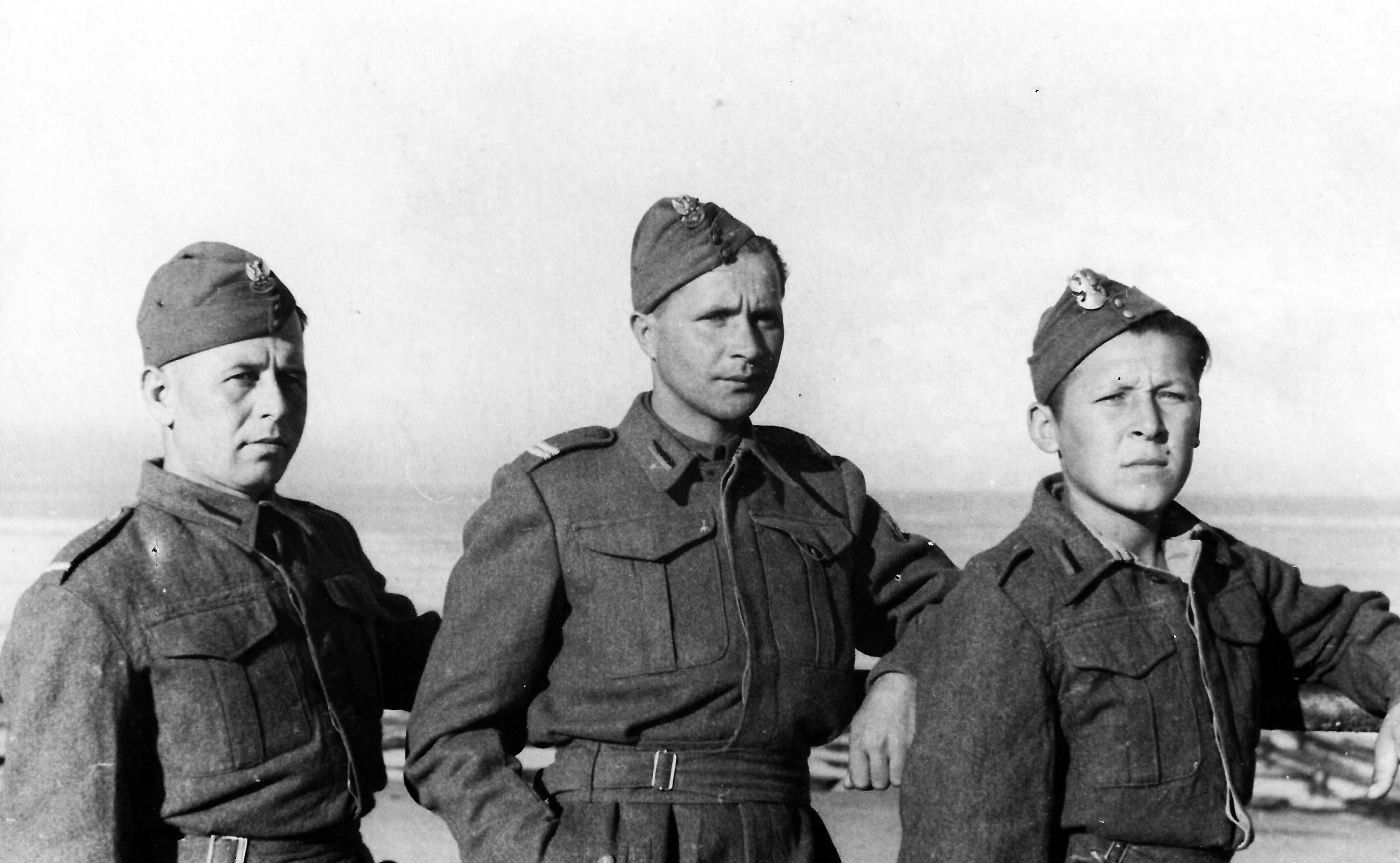 Source: Patrick Grydziuszko